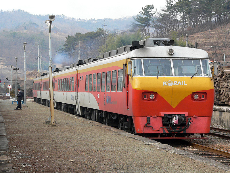 KORAIL Mugunghwa Exp. DMU 'NDC'(New Diesel Car)